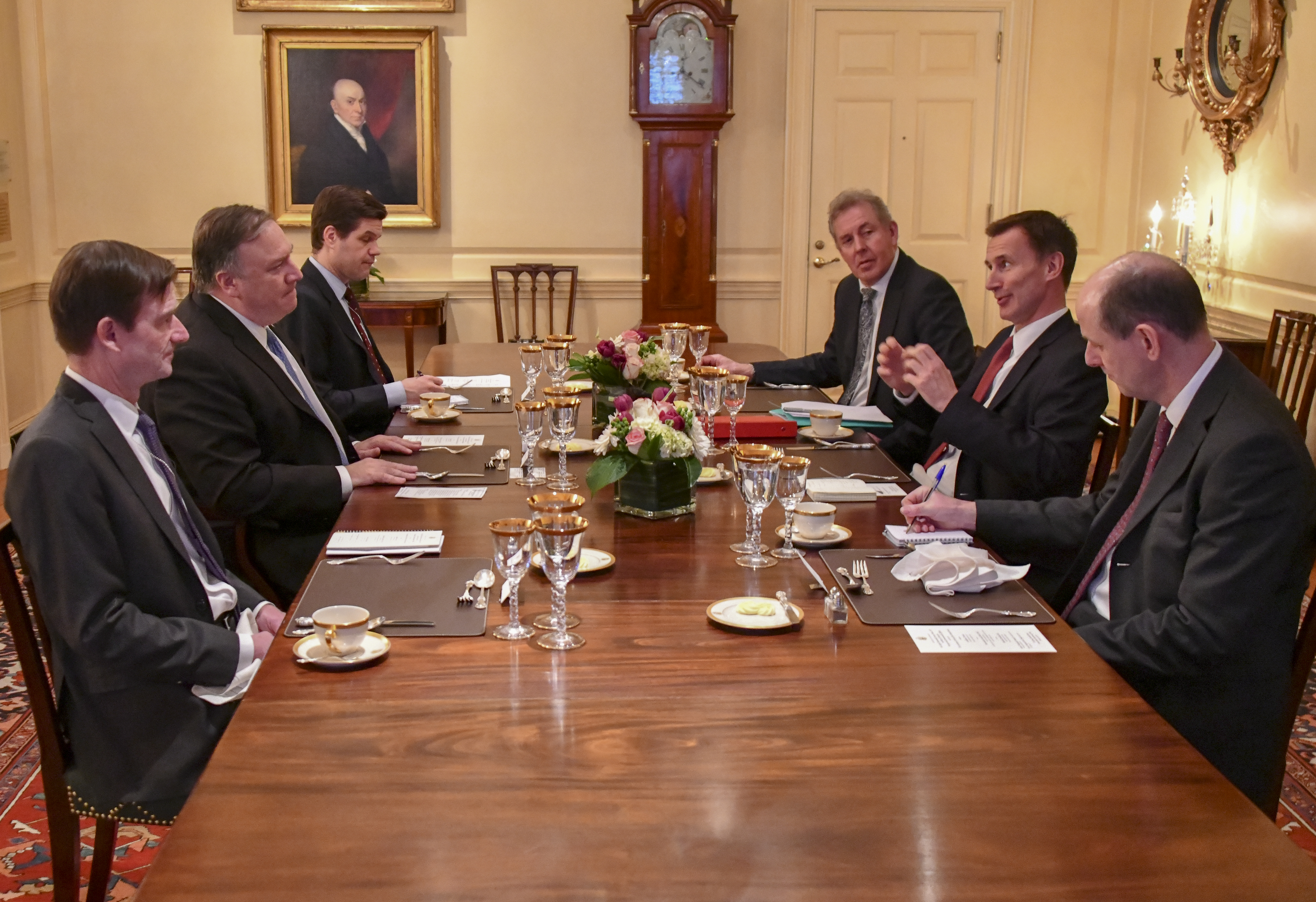 U.S. Secretary of State Michael R. Pompeo participates in a working lunch with UK Foreign Secretary Jeremy Hunt at the U.S. Department of State in Washington, D.C., on January 24, 2019. [State Department photo by Ron Pryzsucha/ Public Domain]